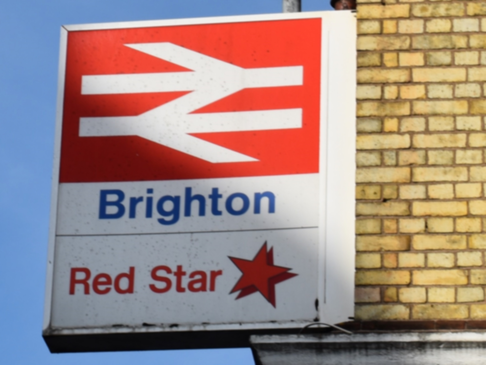 Red Star Parcels sign combined with standard station signage on the western side of Brighton Station.